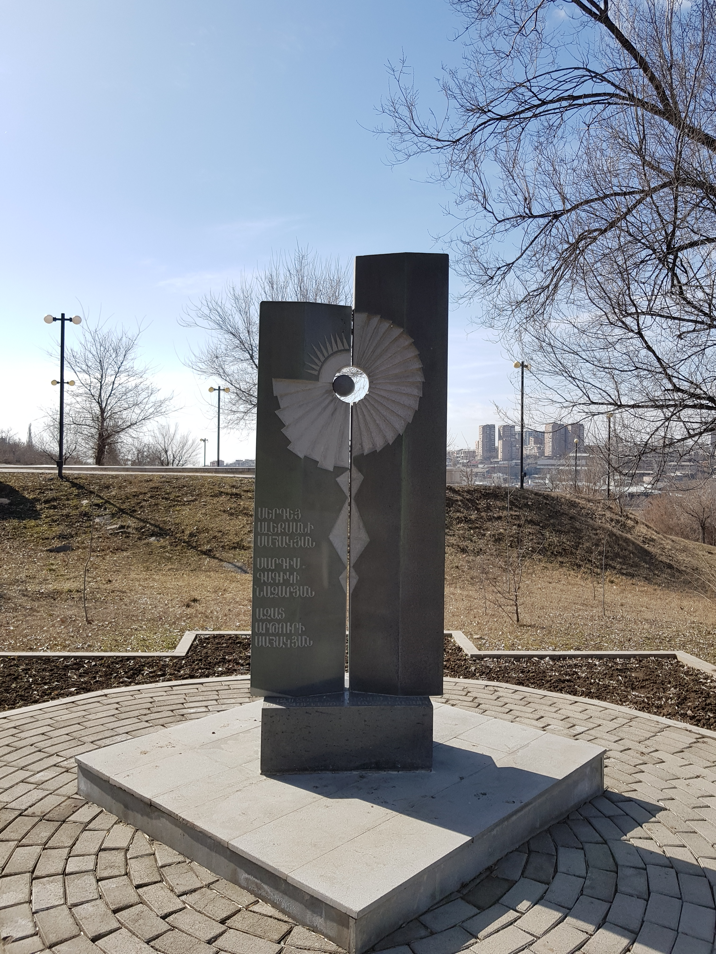 Tatoul Krpeyan Park